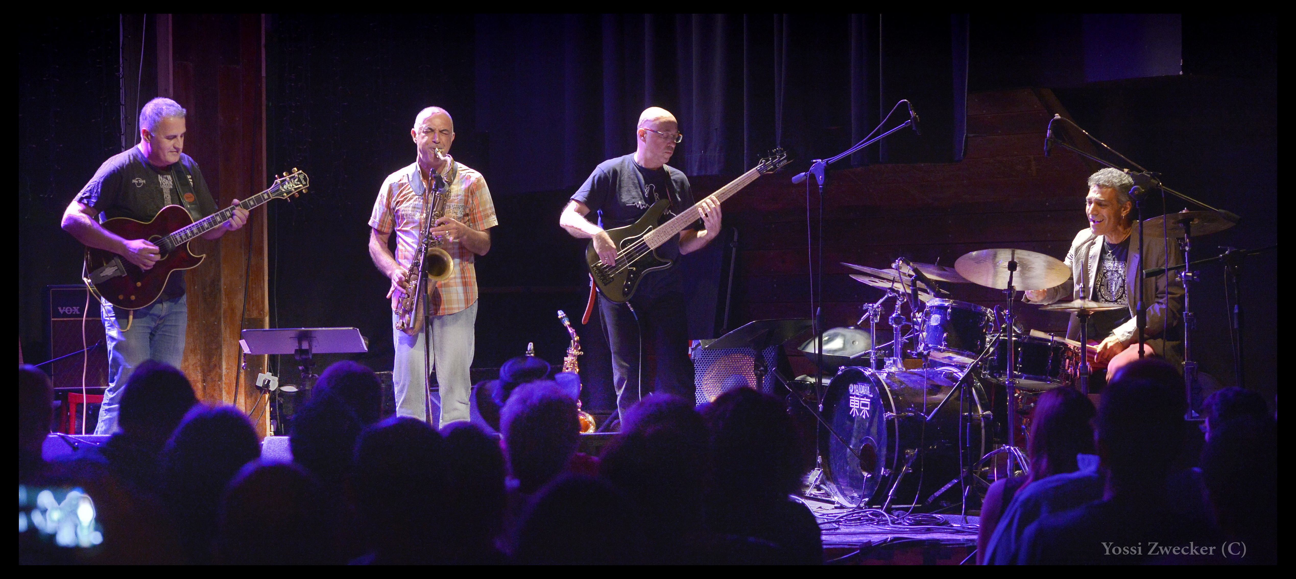 Minuette Jazz Quartet, 2017 - by Yossi Zwecker